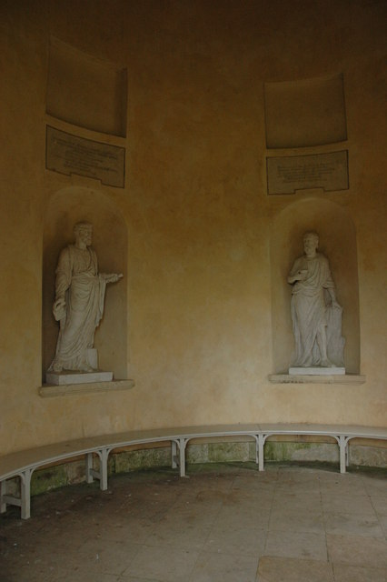 The interior of the Temple of Ancient Virtue The figures are copies of the originals which were sold 1921.